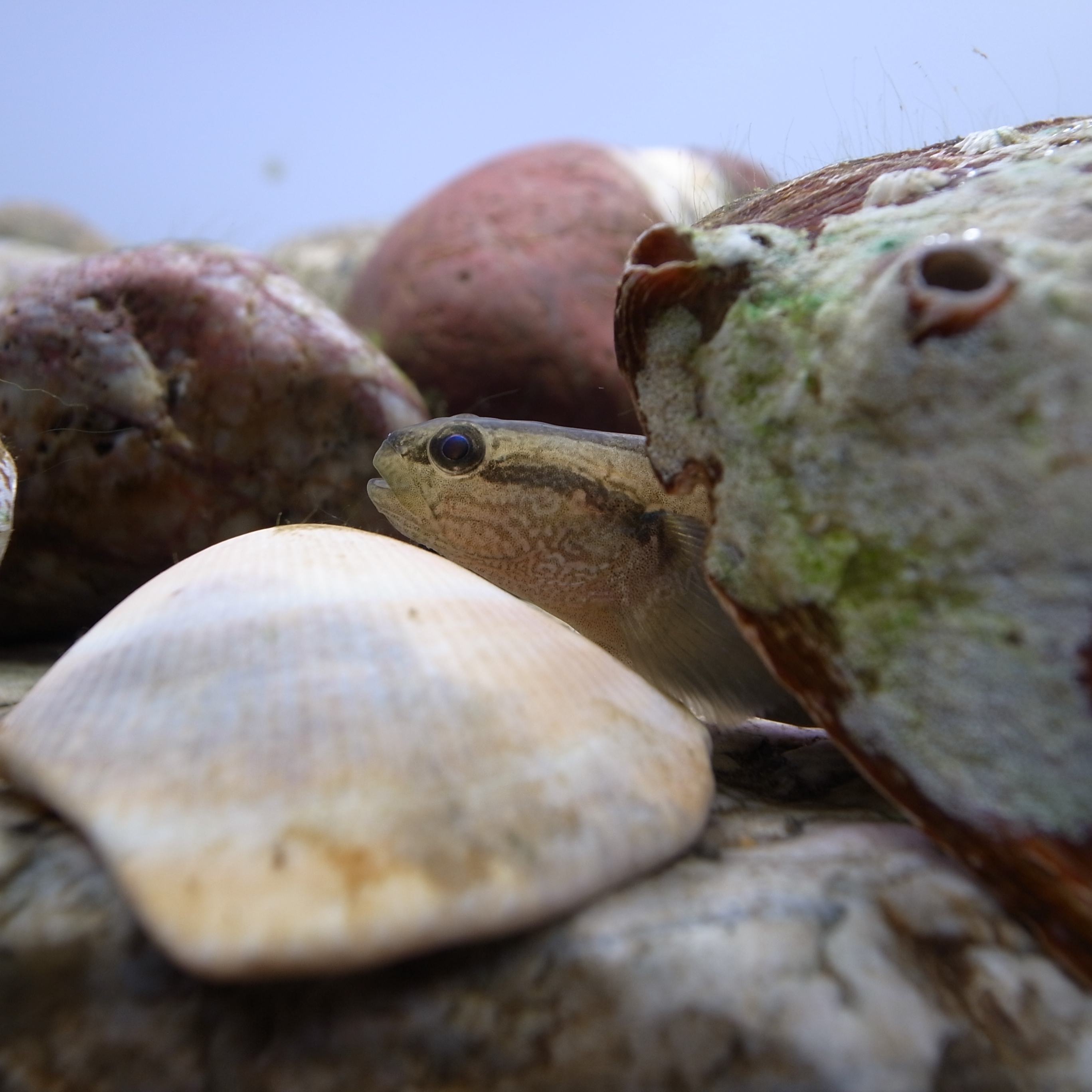 Chameleon goby (Tridentiger trigonocephalus (Gill, 1859)) from Kyoto Aquarium, Japan